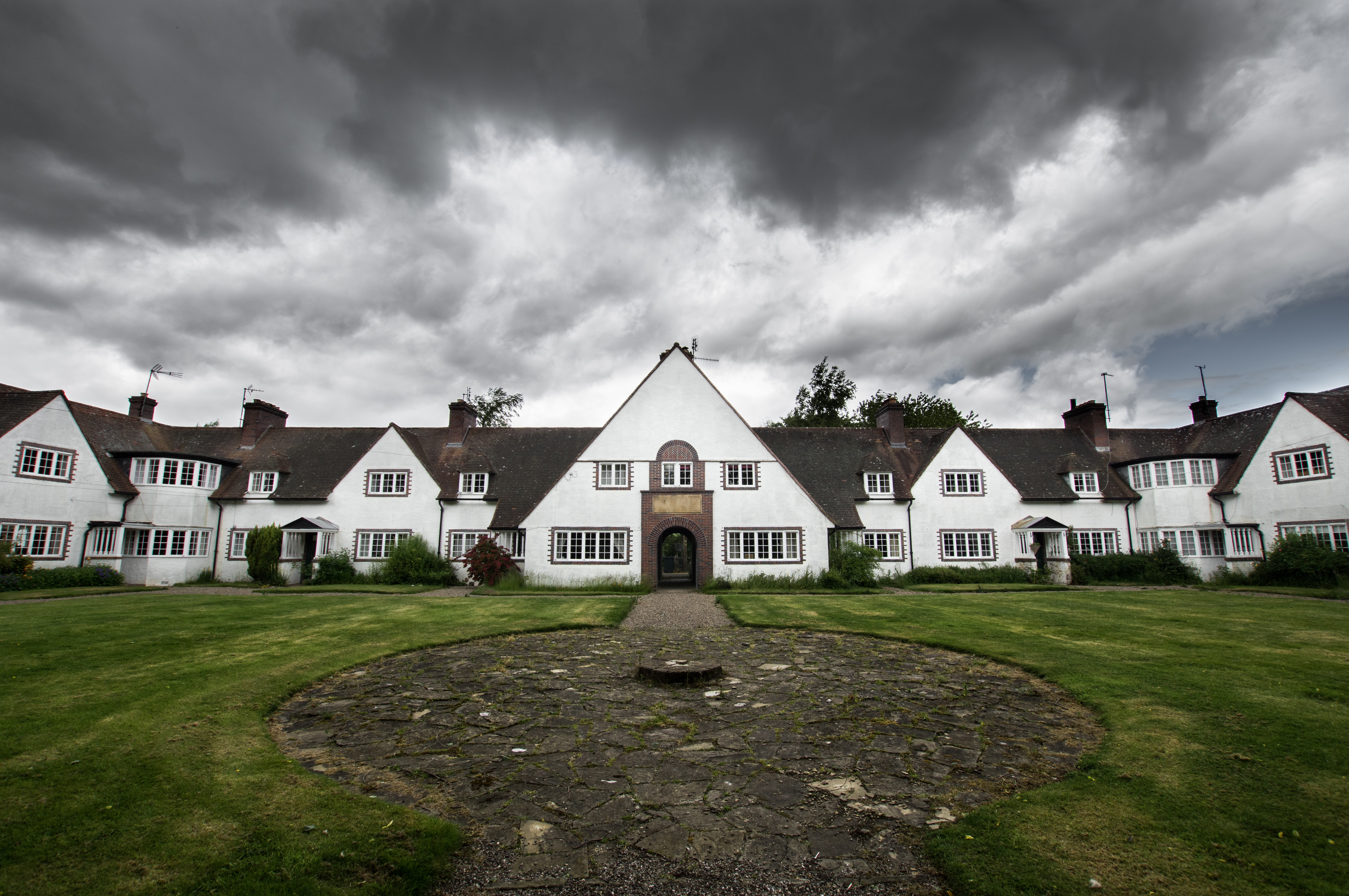 Forteviot